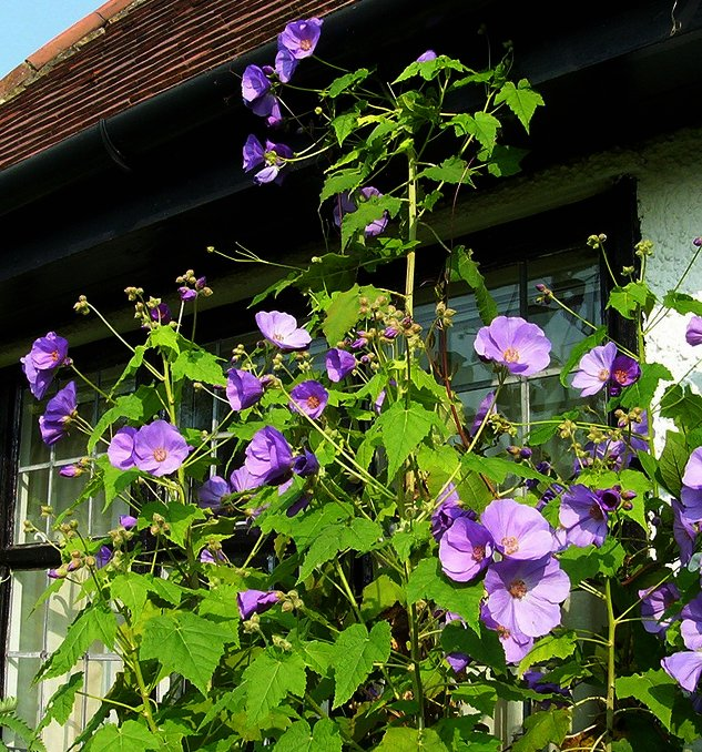 A much classier relative of the more commonly grown Lavatera. What it lacks in length of flowering season I feel it makes up for in sheer quality of bloom (rich satin purple), foliage and overall shape. Semi-evergreen and hardy with plenty of sun and good drainage. Excellent for chalk and maritime situations. To 10ft tall, but quite upright.